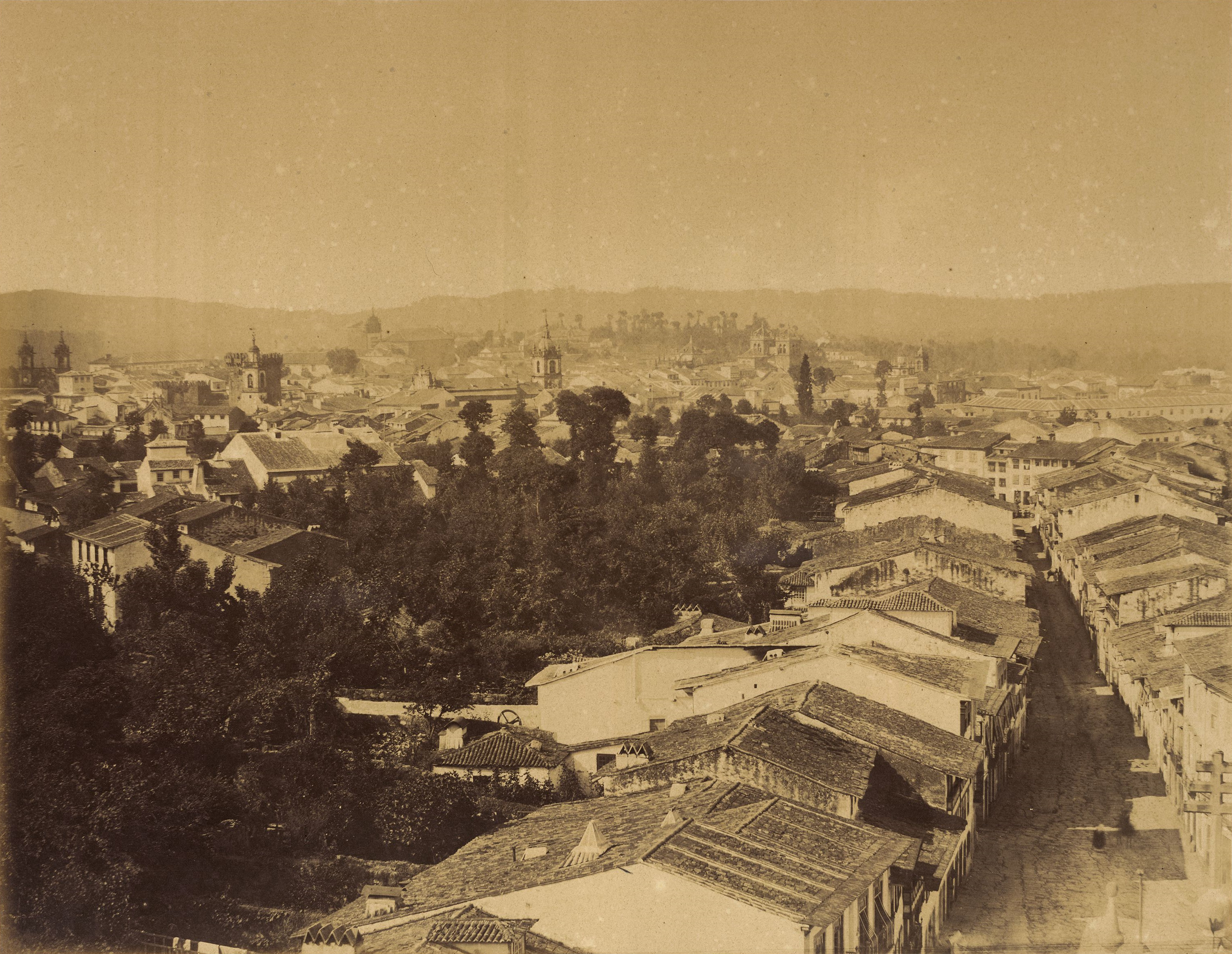 Panoramic view of Braga in the middle of XIX century. Foto em 2013 do mesmo local